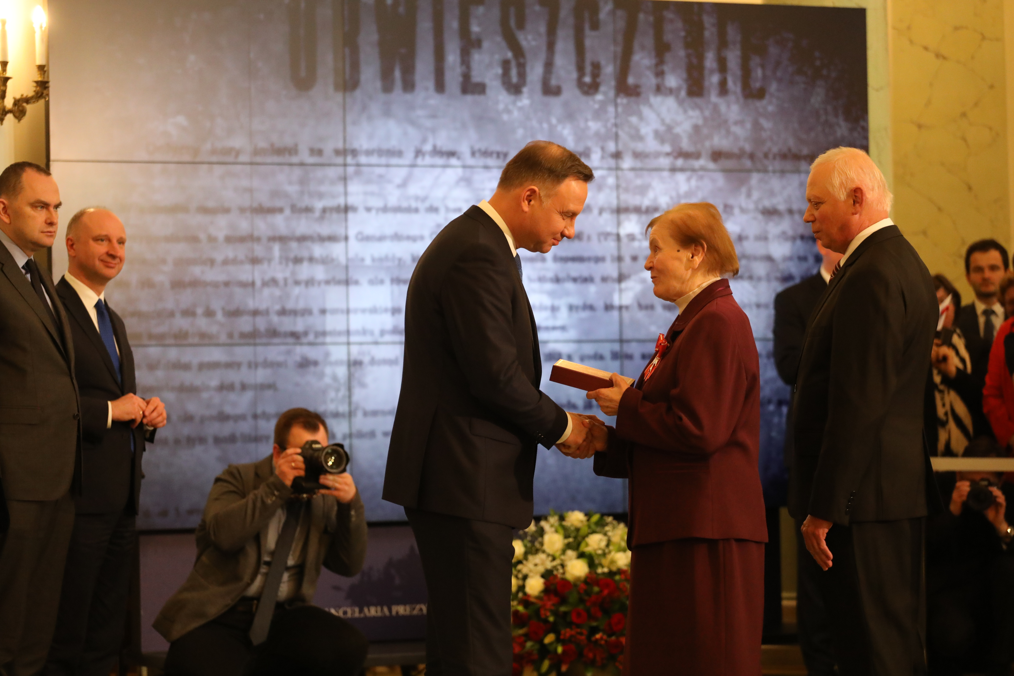 The ceremony of awarding decorations to Poles saving Jews during World War II with the participation of the head of the Chancellery of the Sejm Agnieszka Kaczmarska. Warsaw. Poland.